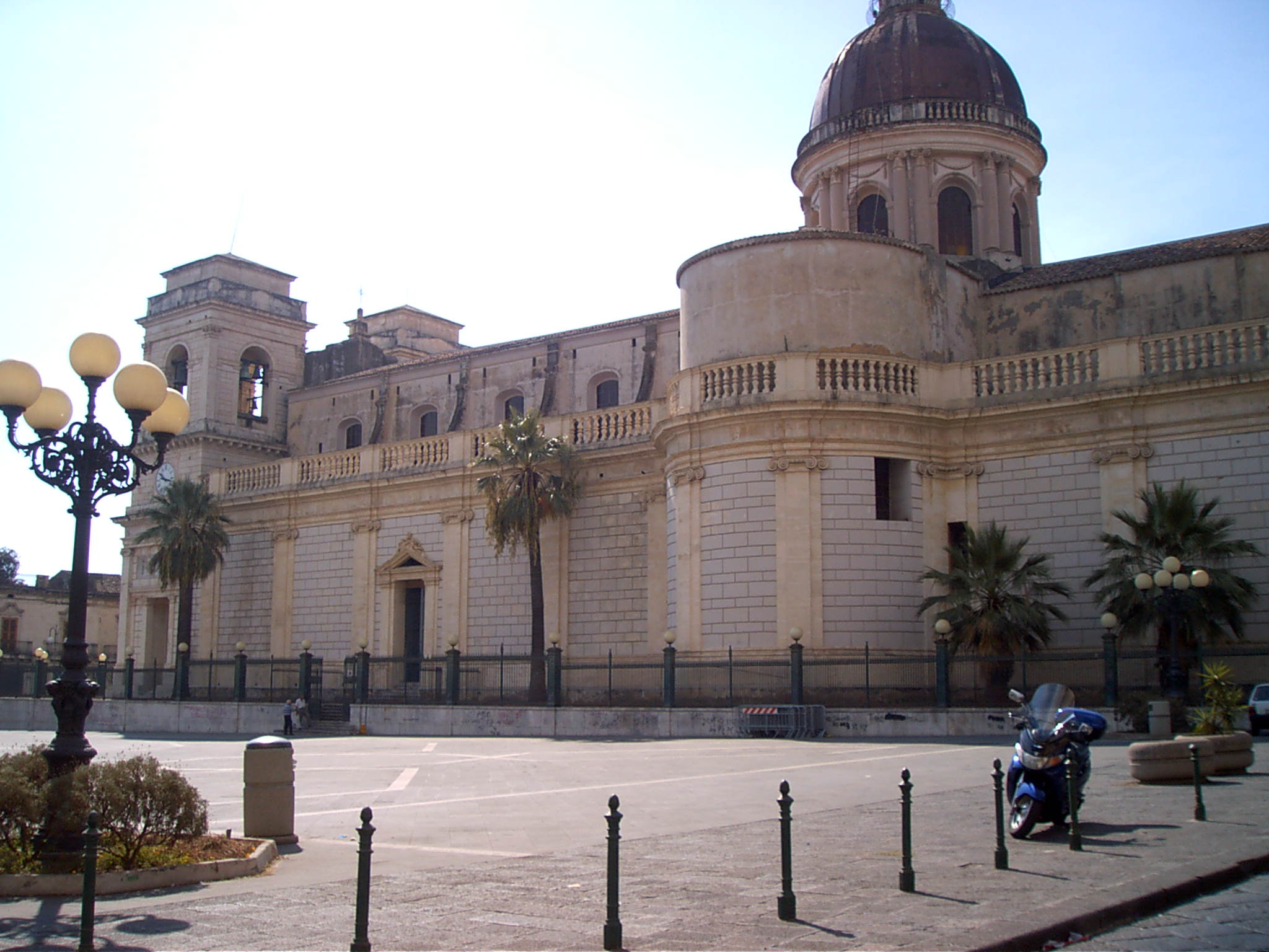 Saint Isidore the Laborer Church, Giarre, Sicily, Italy; 2007